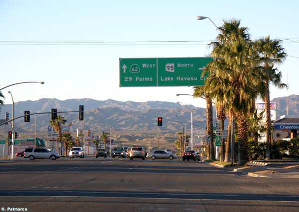 California State Route 62 Eastern Terminus at Arizona 95 North in Parker, AZ